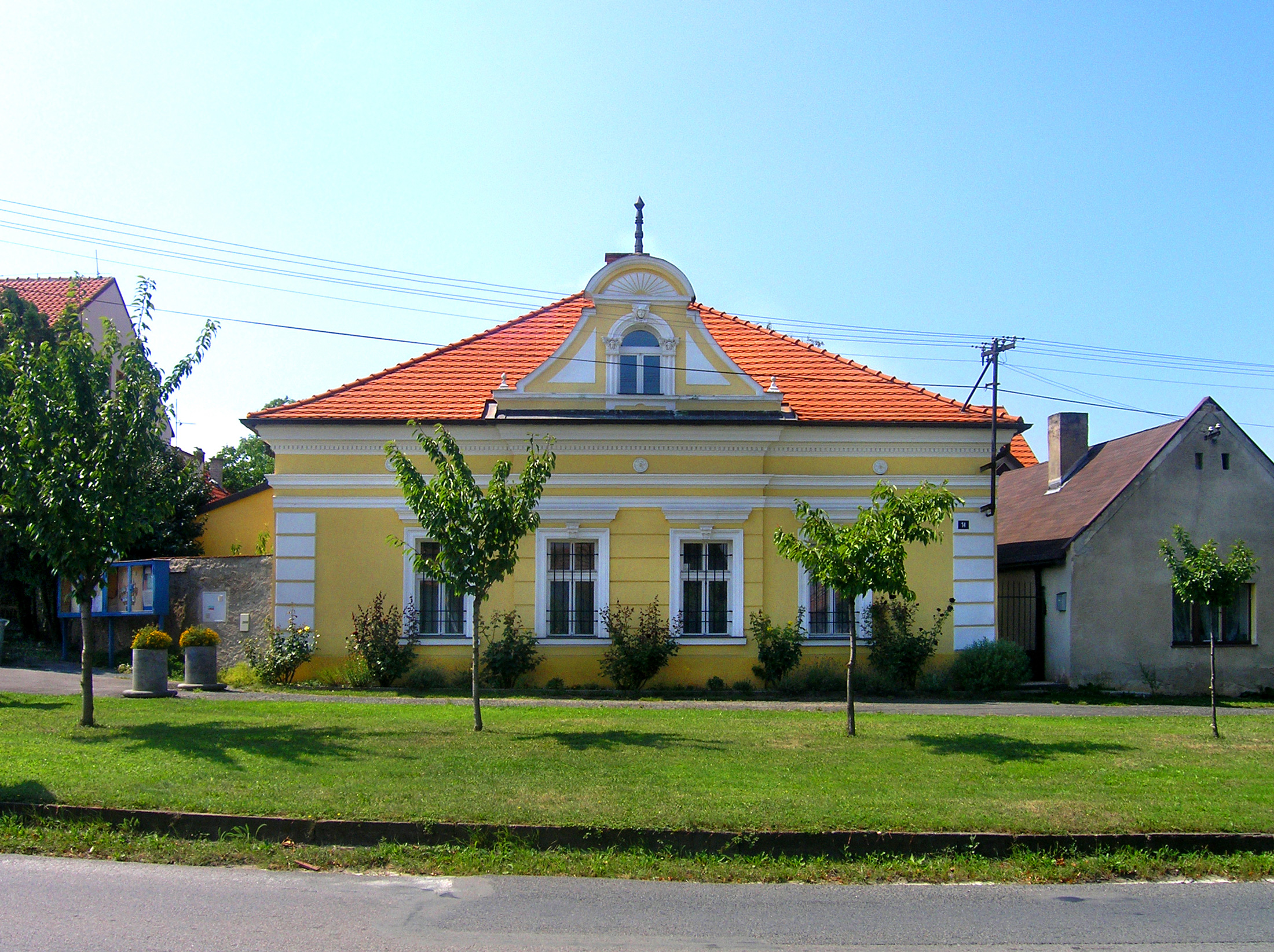 Common in Sibřina. Czech Republic